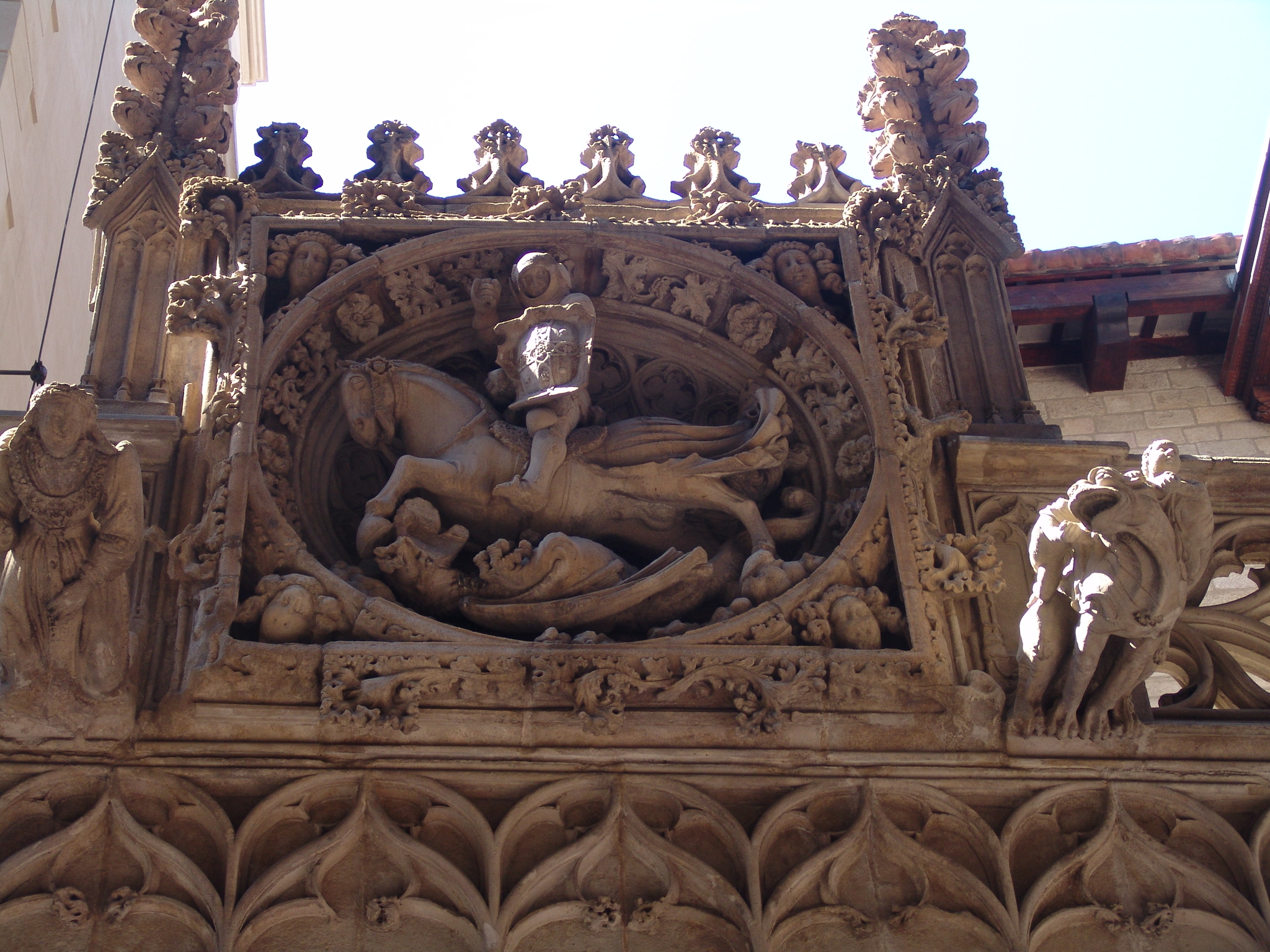 The Palau de la Generalitat houses the offices of the Presidency of the Generalitat de Catalunya